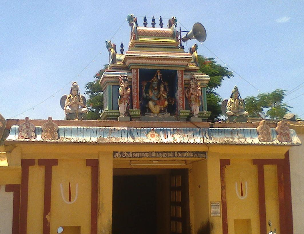 Kumbakonam Varahaperumal Templeகும்பகோணம் வராகப்பெருமாள் கோயில்